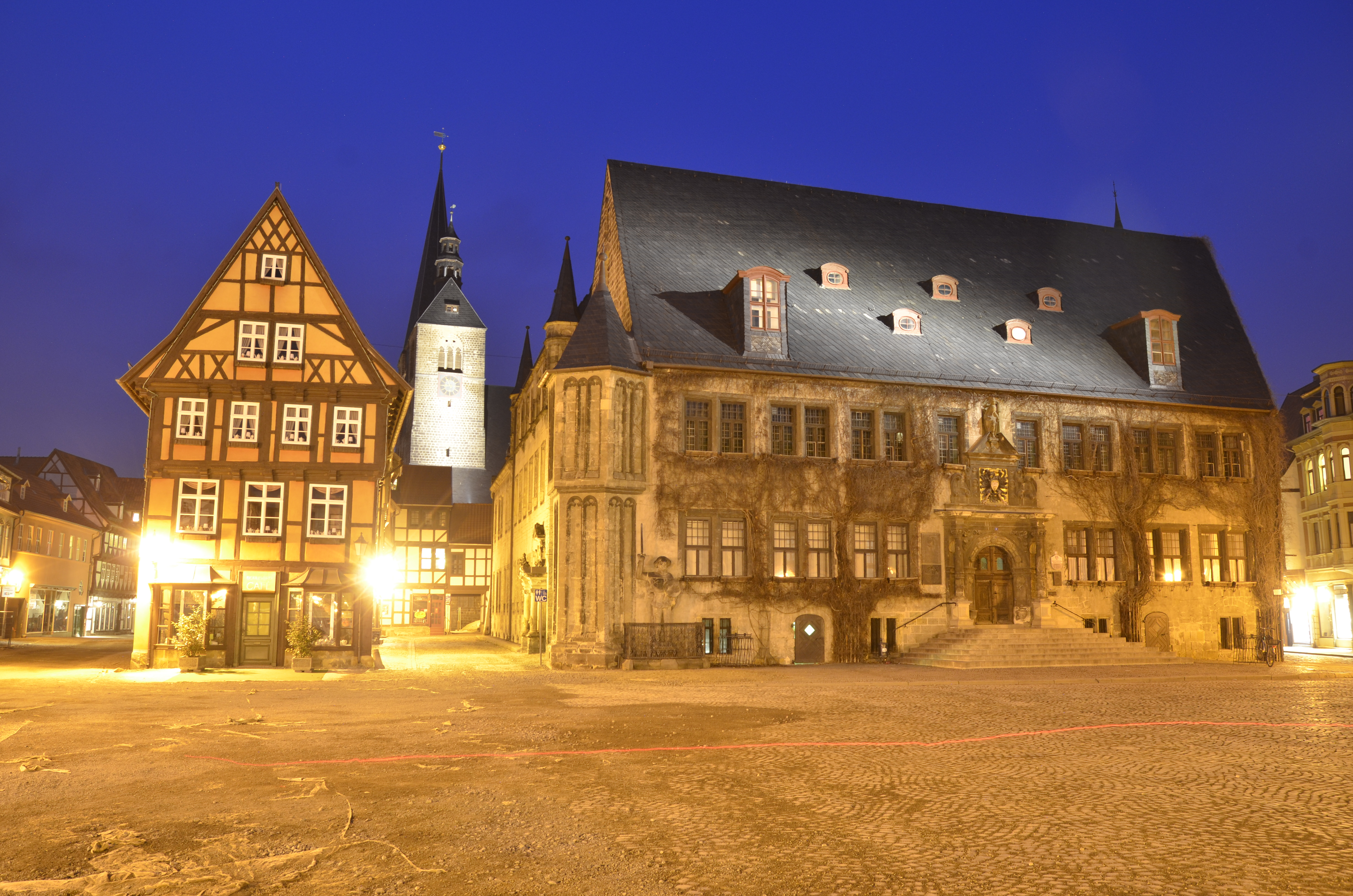 Quedlinburg - Altes Rathaus bei Nacht